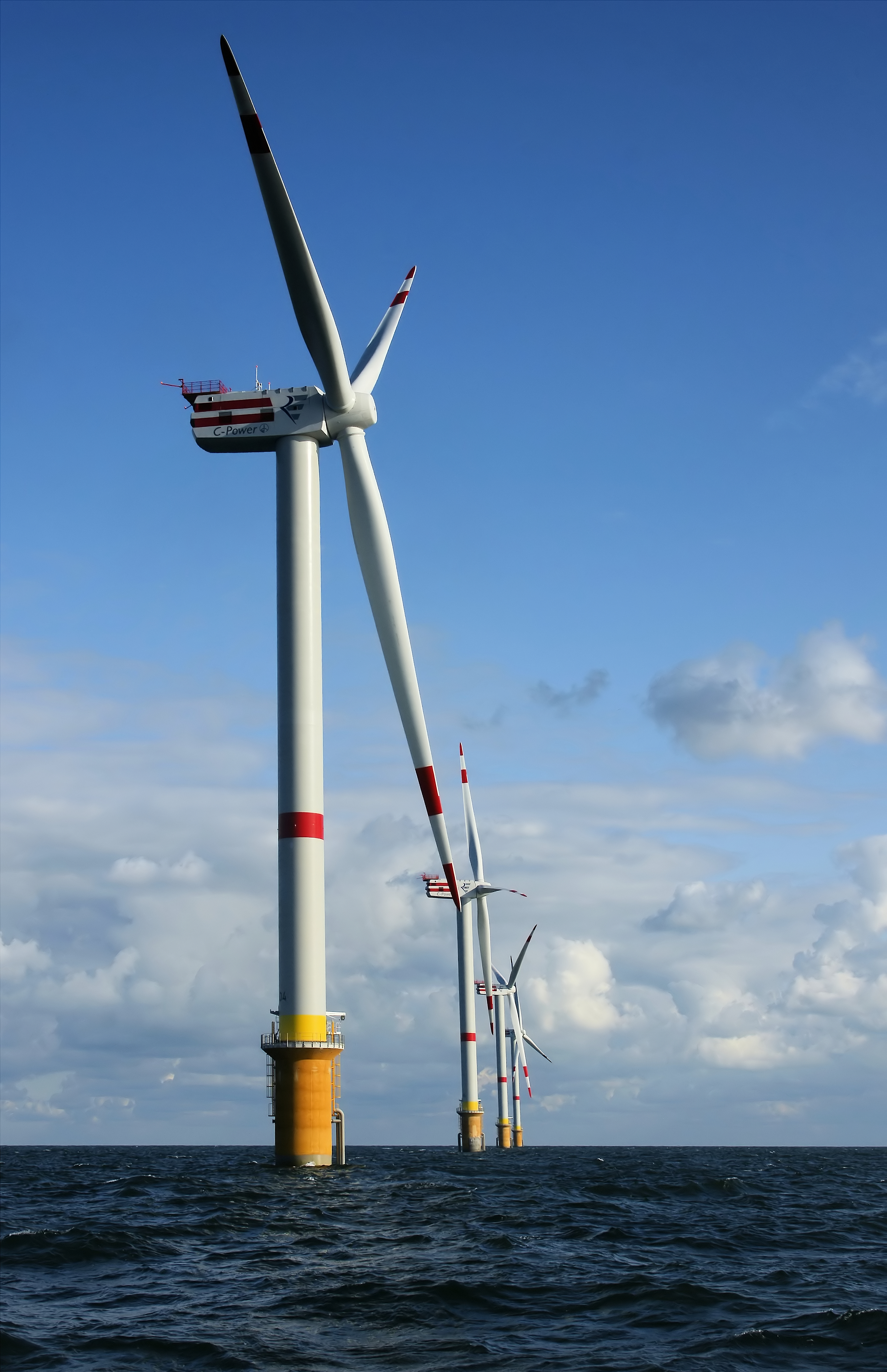 Newly constructed windmills D4 (nearest) to D1 on the Thornton Bank, 28 km off shore, on the Belgian part of the North Sea. The windmills are 157 m (+TAW) high, 184 m above the sea bottom. Vane length : 61.5 m Rotor diameter: 126 m Rotor area: 12.469 m2 Blades: manufactured by LM Wind Power (see here) Turbines: 5 MW manufactured by REpower.